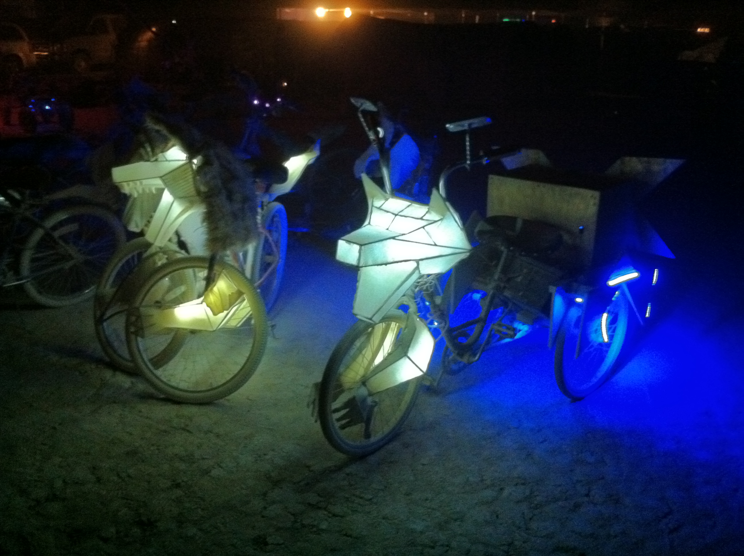 Burning Man 2011 Shot by Victor Grigas